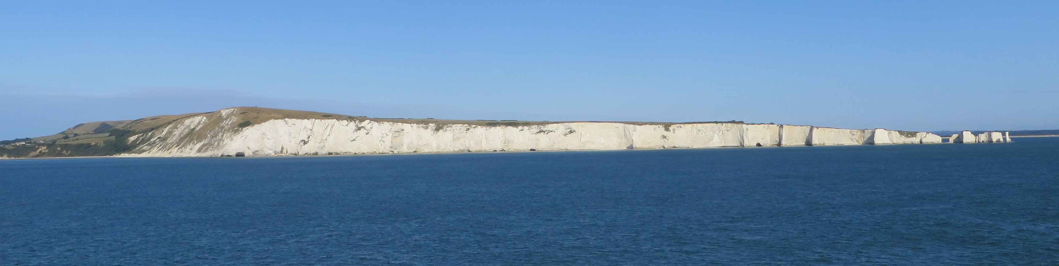 Ballard Cliff is part of the Jurassic Coast near Swanage in the Isle of Purbeck in Dorset, England.